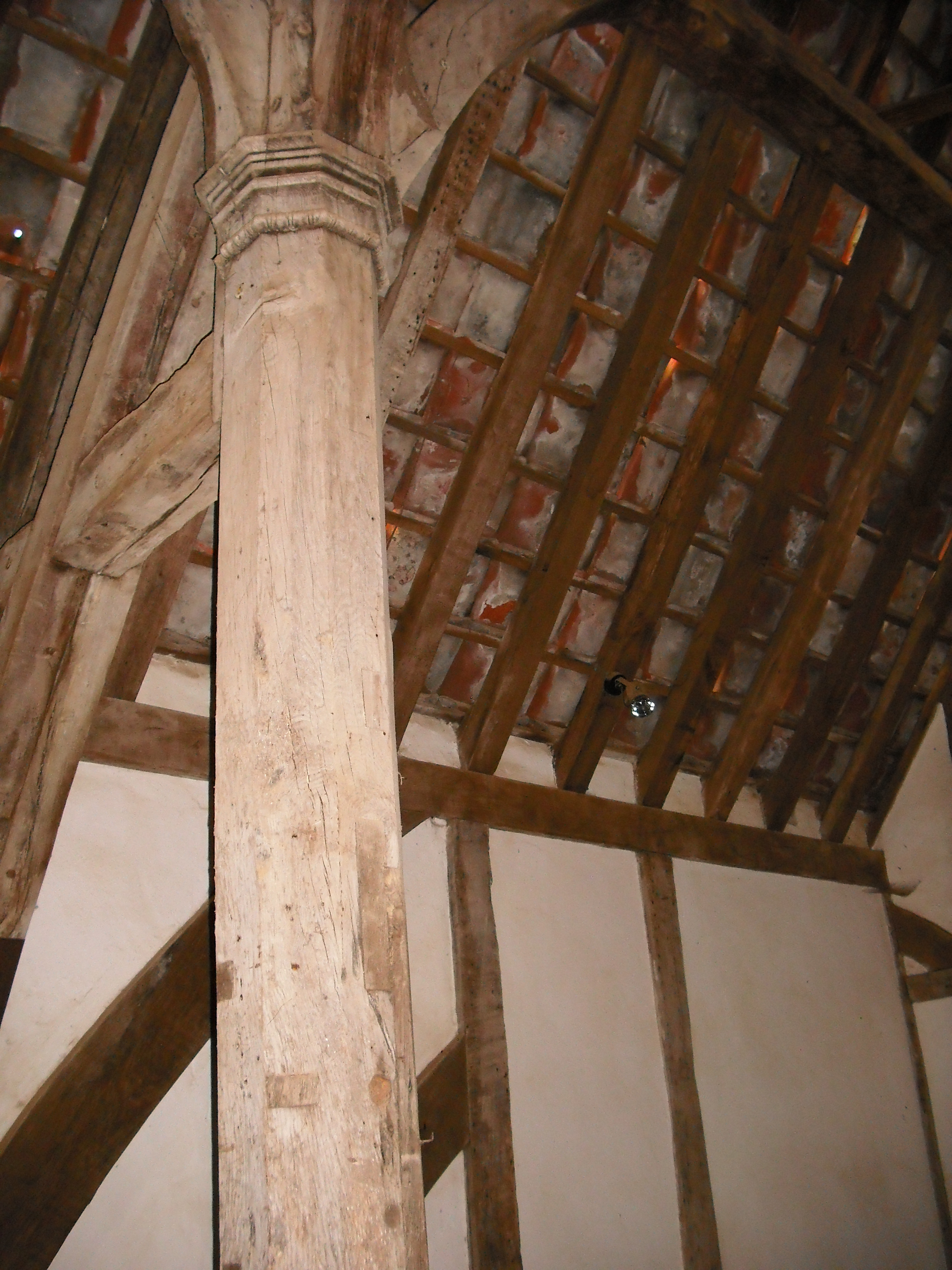 Edgar's Farmhouse, Museum of East Anglian Life, Stowmarket, Suffolk